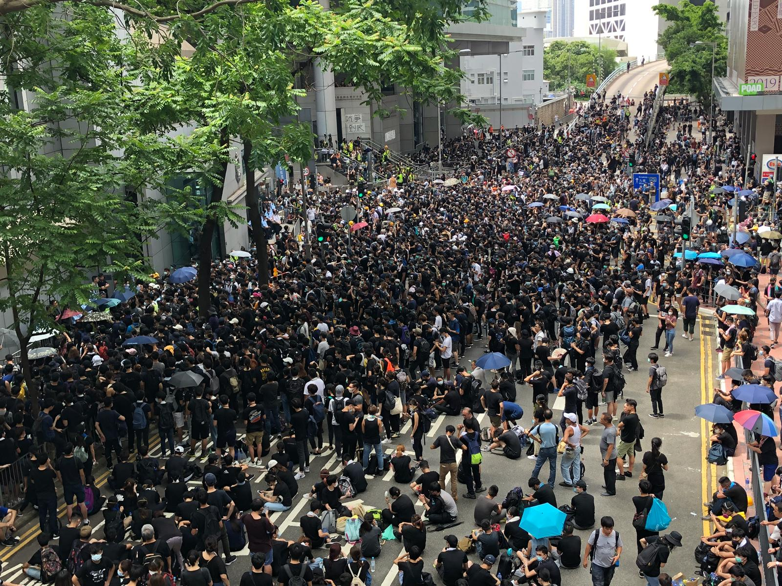 Protesters outside the Headquarters of Hong Kong Police. Captured by Iris Tong - VOA.